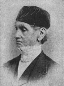 A photograph of Samuel Myer Isaacs taken from The Memorial History of the City of New-York: From Its First Settlement to the Year 1892, Volume 4